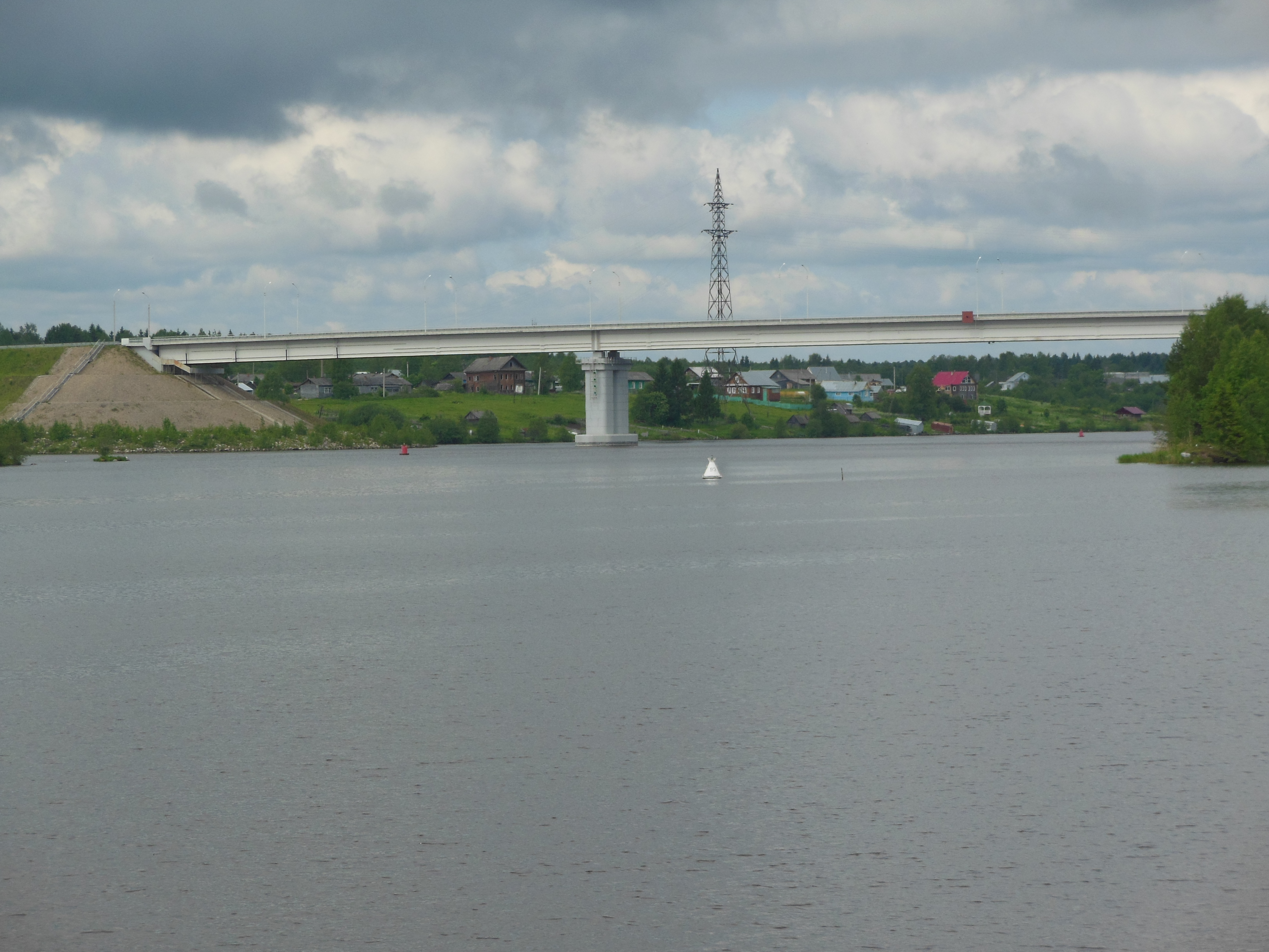 Village Sheksna, Kirillovsky District, Vologda Oblast